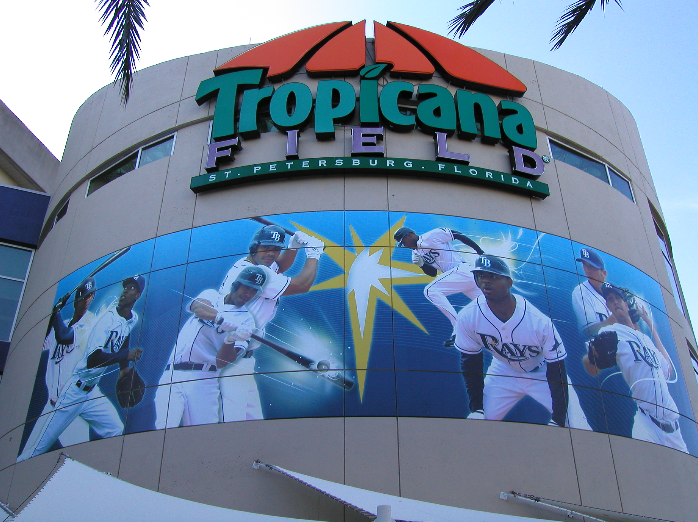 Entrance to Tropicana Field through Main Rotunda